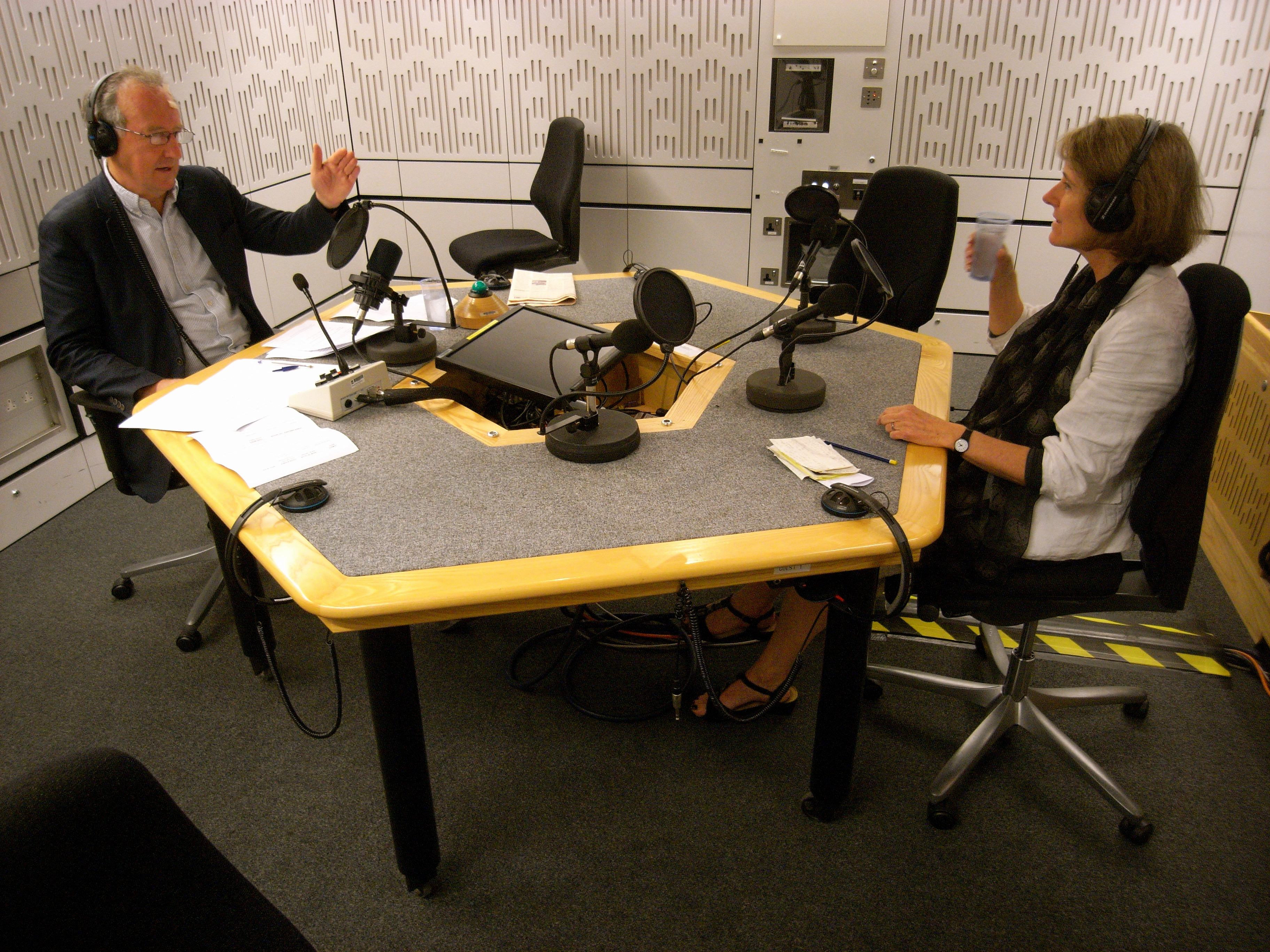 Roger Bolton (left) interviewing Gwyneth Williams, the controller of UK radio station BBC Radio 4, on the Radio 4 programme Feedback